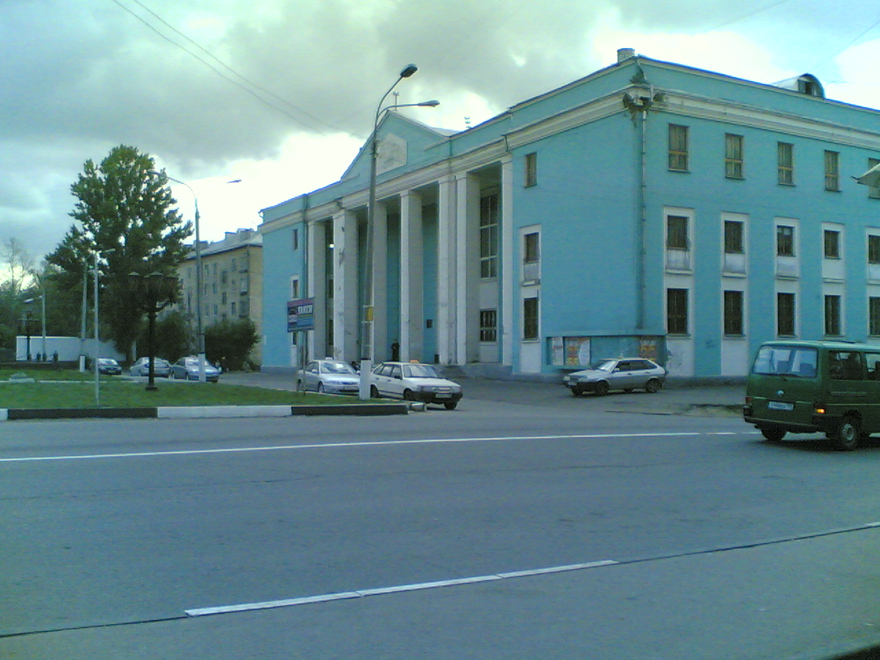 DC Mashinostroitel Club, 1960 year, Klimowsk town, Russia.